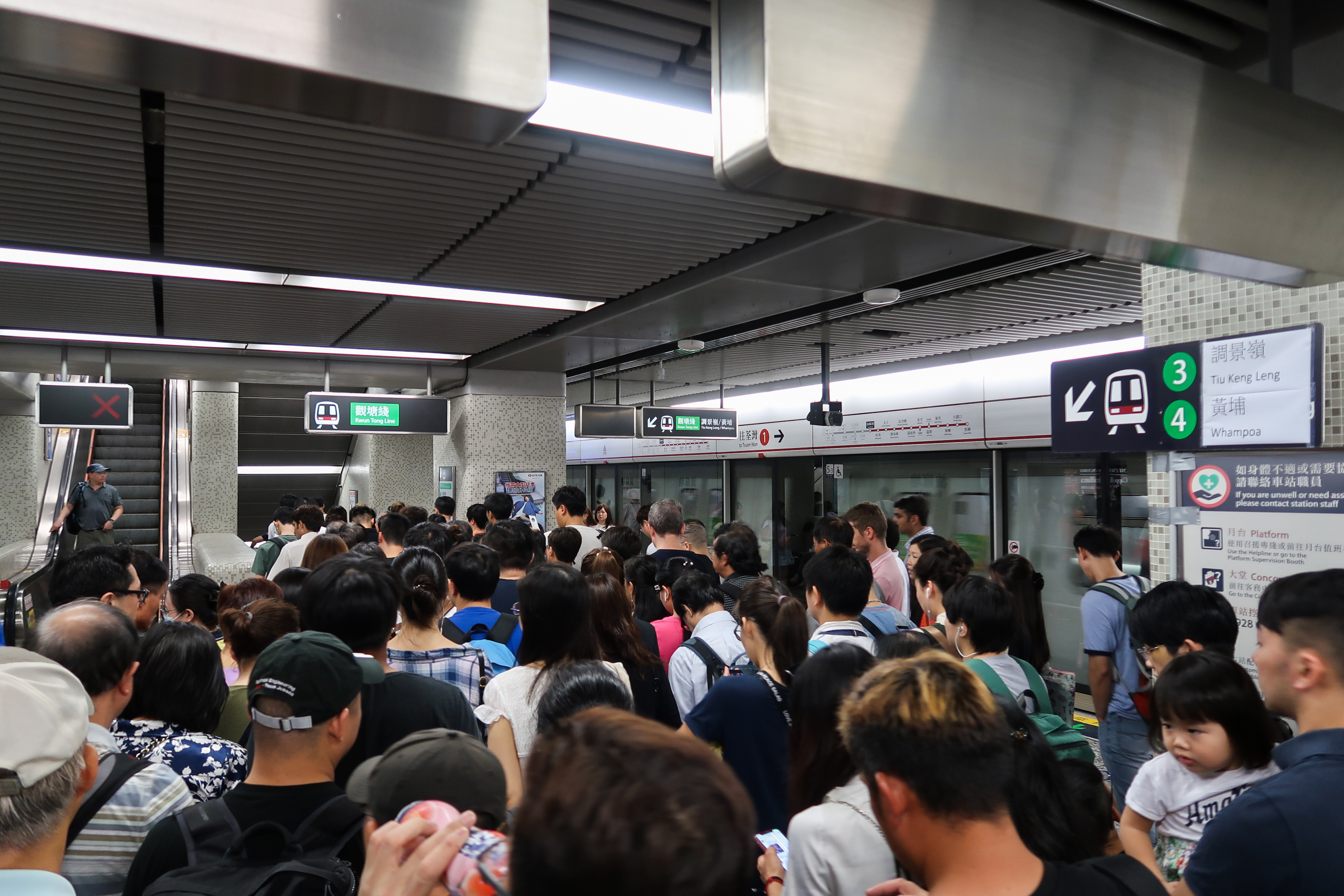 Yau Ma Tei Station Platform overcrowded